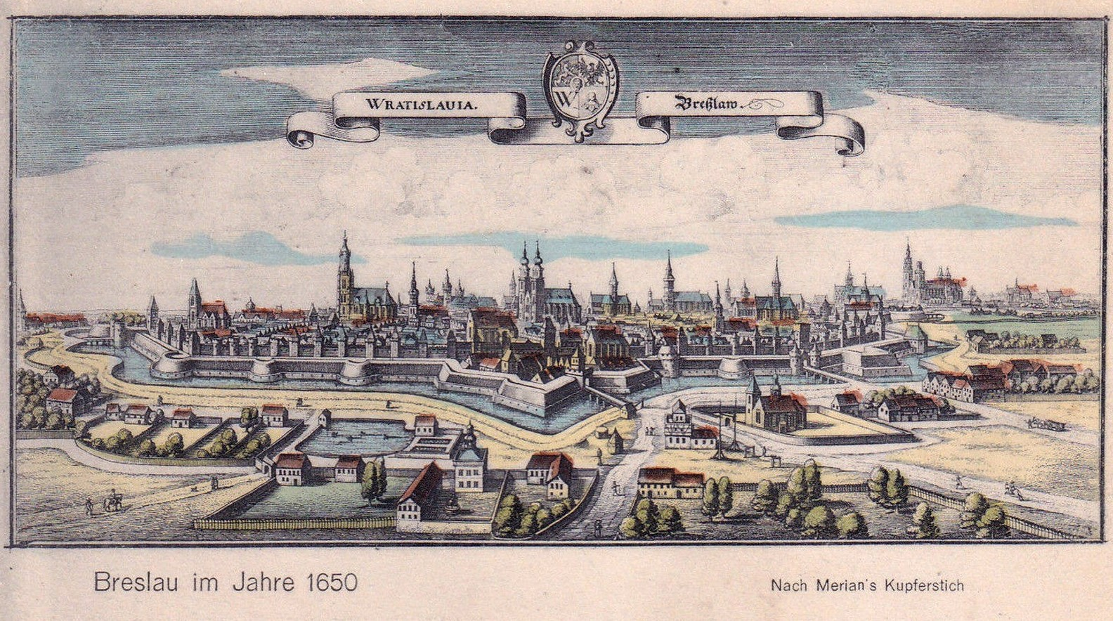 Wratislauia - Breßlaw - Breslau - view of the city - 17th Century